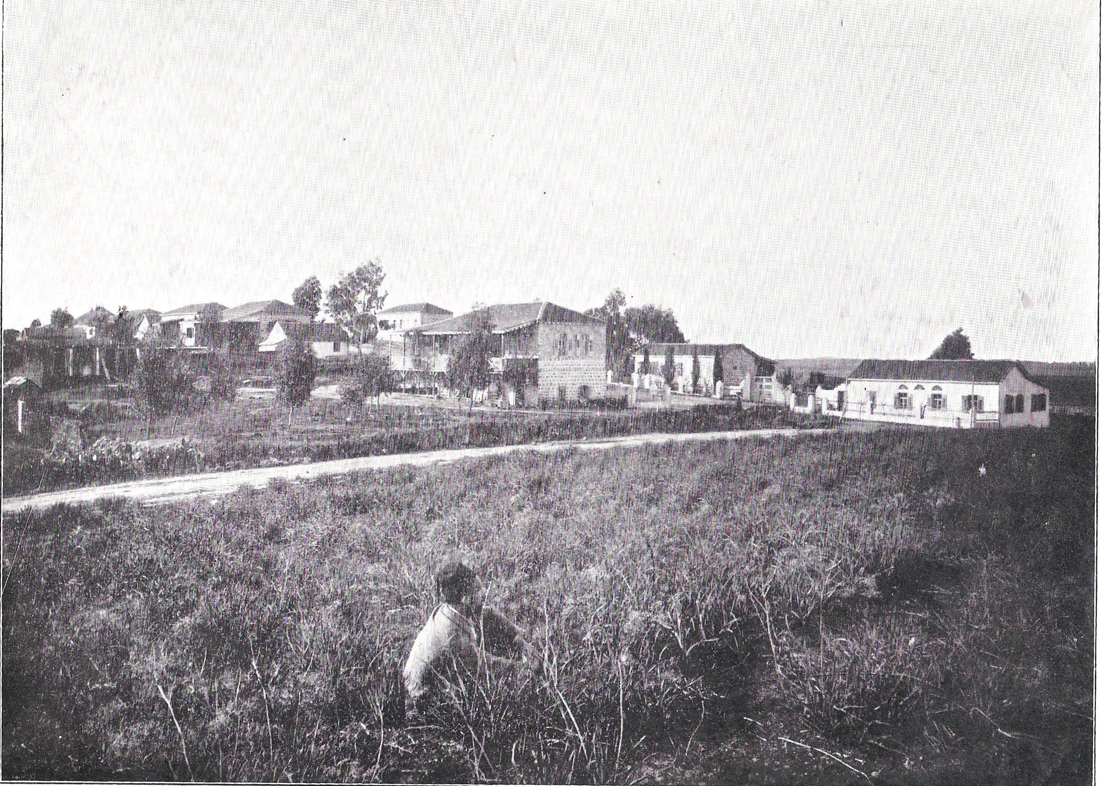 The picture are from old book (that was published in 1899), some of the picture are fro 1899, some are even older: This work or image is now in the public domain because its term of copyright has expired in Israel. According to Israel's copyright statute from 2007 (translation), a work is released to the public domain on 1 January of the 71st year after the author's death (paragraph 38 of the 2007 statute) with the following exceptions: A photograph taken on 24 May 2008 or earlier — the old British Mandate act applies, i.e. on 1 January of the 51st year after the creation of the photograph (paragraph 78(i) of the 2007 statute, and paragraph 21 of the old British Mandate act). If the copyrights are owned by the State, not acquired from a private person, and there is no special agreement between the State and the author — on 1 January of the 51st year after the creation of the work (paragraphs 36 and 42 in the 2007 statute). See also category: PD Israel & British Mandate. For the scan and the the crop: The name of the book (in hebrew) is: "מראה ארץ ישראל והמושבות" by (in hebrew): "ישעיהו ראפאלוביטש ושותפו משה אליהו זאכס" Gedera